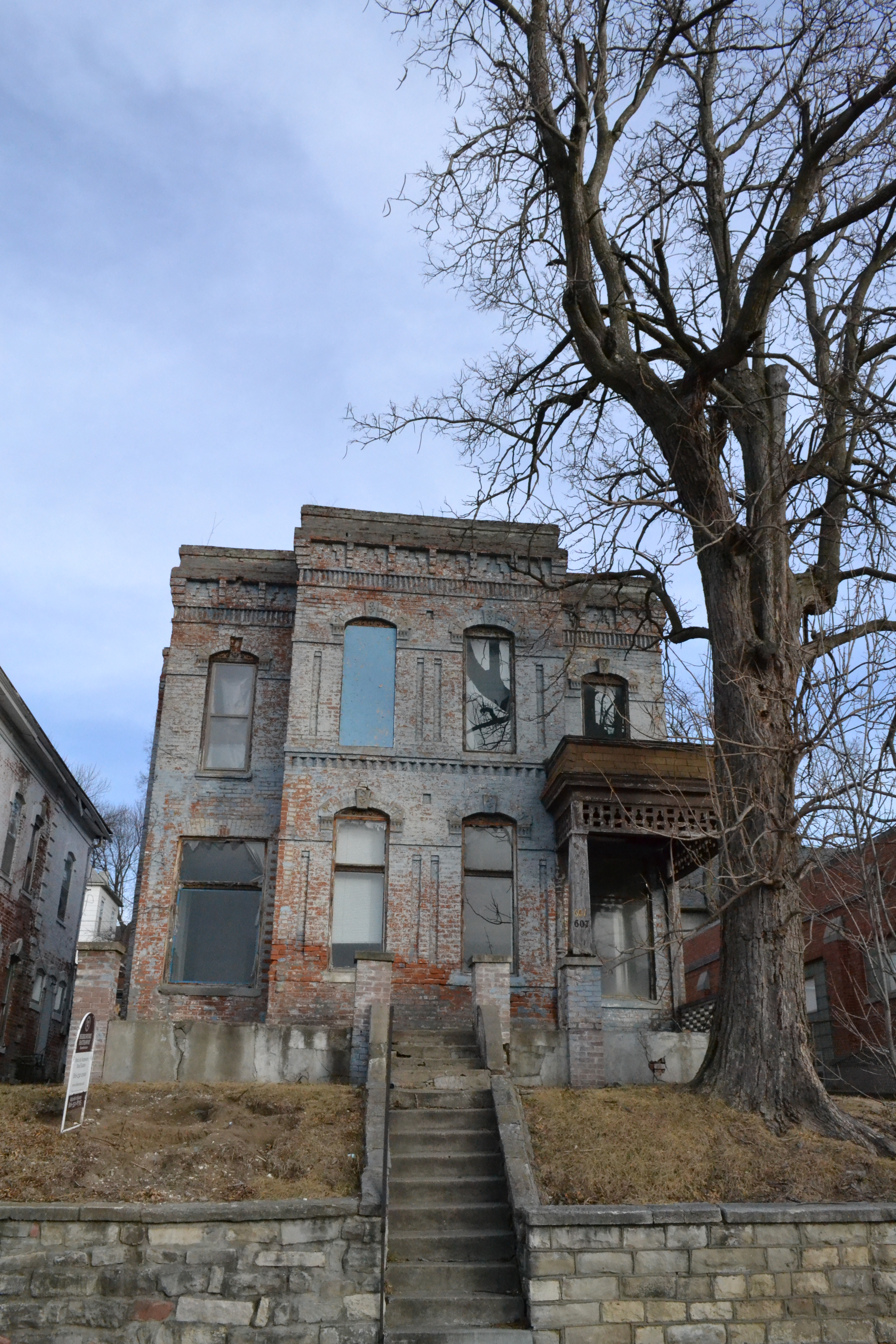 The Myron Hurd Duplex, 607 N 10th St., St. Joseph, Missouri. Part of the Cathedral Hill Historic District.